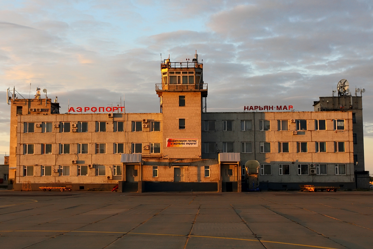 Naryan-Mar Airport buildings